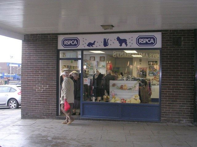 RSPCA - Bramley Shopping Centre